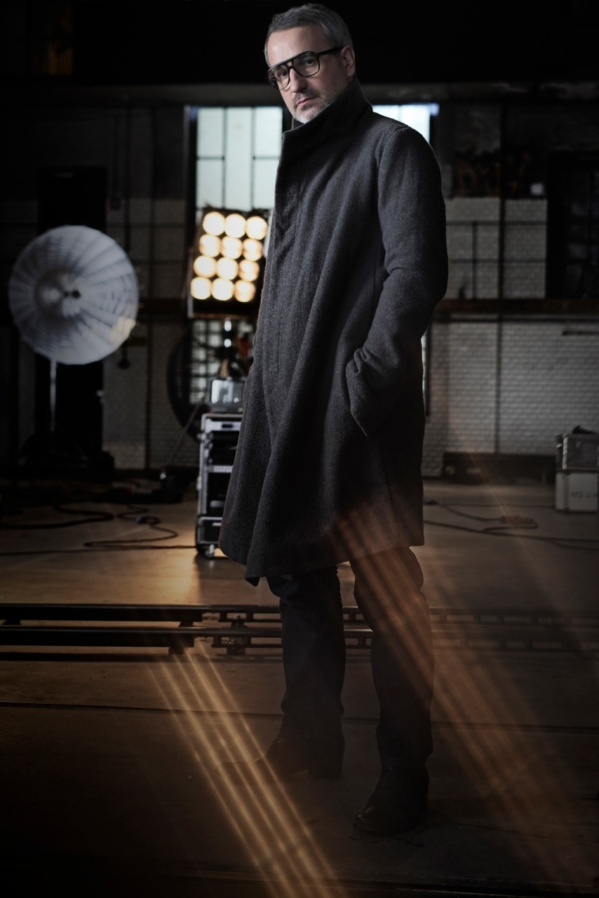 Jean-Claude Thibaut on a shoot in Paris, France